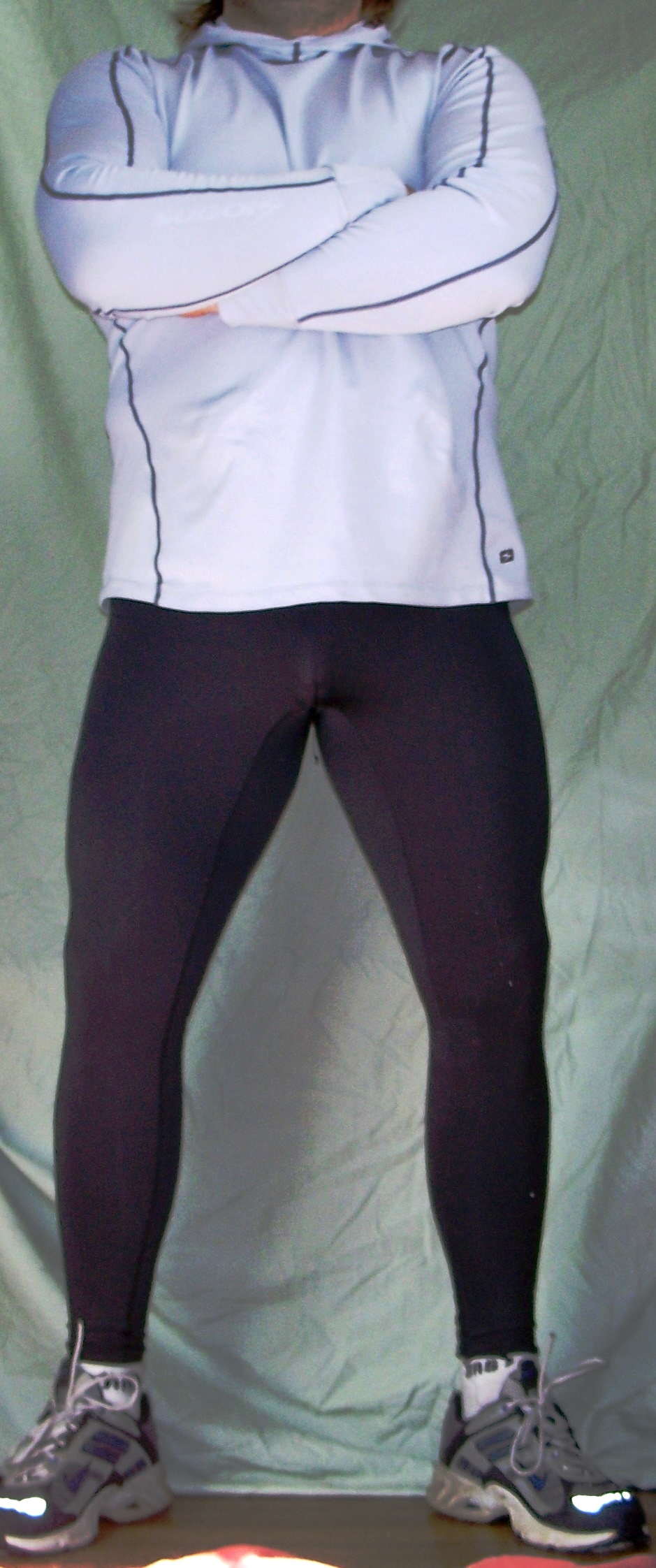 Picture 007: A man wearing leggings